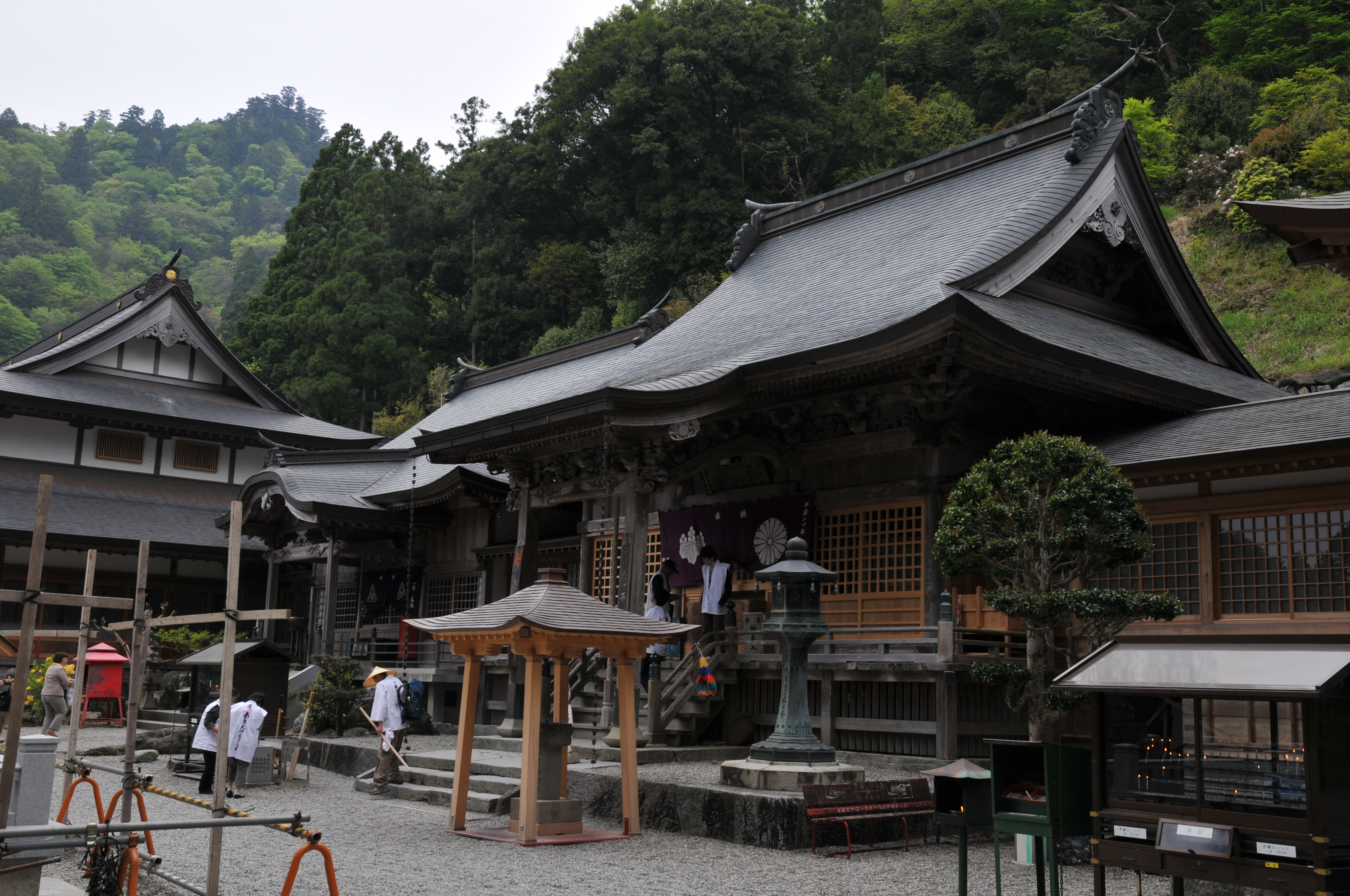 Main temple, Shōsan-ji